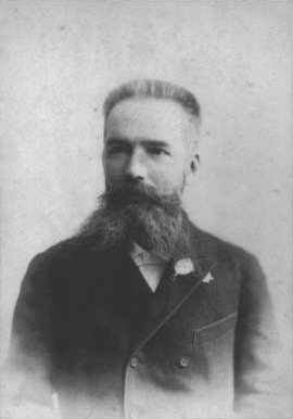 Alexandr Turchevich (1855—1909), Russian architect